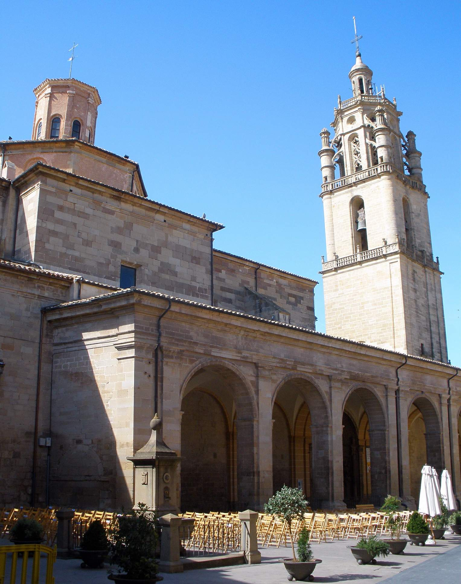 Church of Santa María, Los Arcos (Navarra)